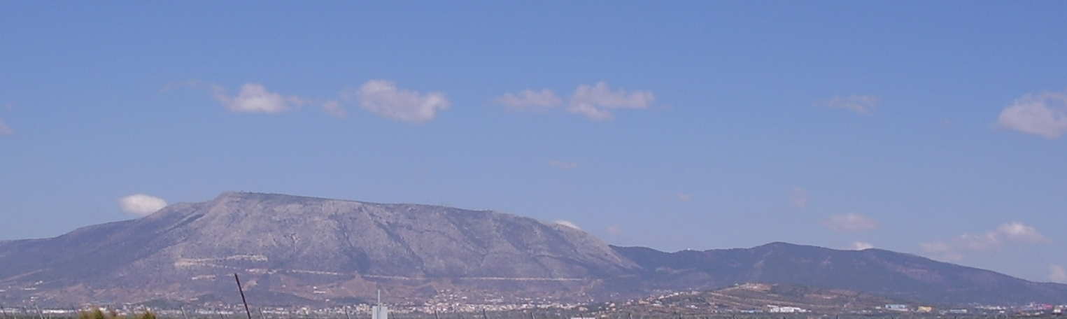 Mount Hymettus, view from the East